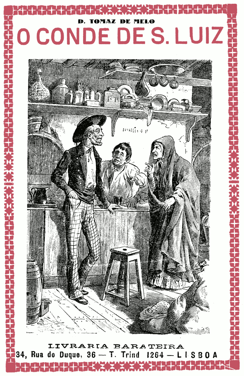 Cover of the book O Conde de S. Luiz by Thomaz de Mello. Lisbon, 1903: Empreza da Historia de Portugal.